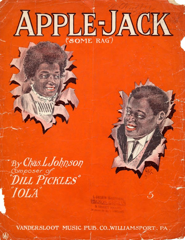 Apple Jack, 1909